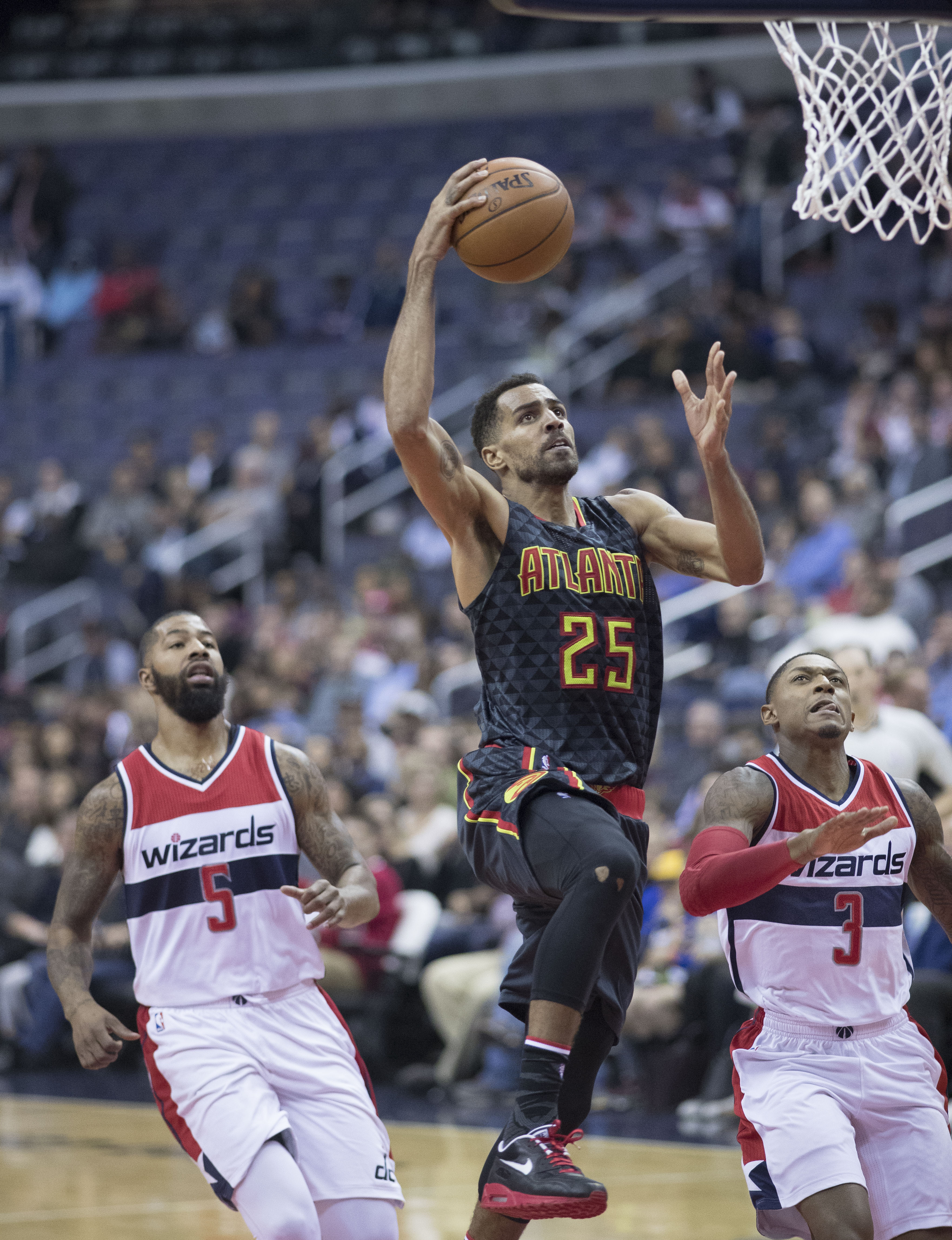 Hawks at Wizards 11/4/16